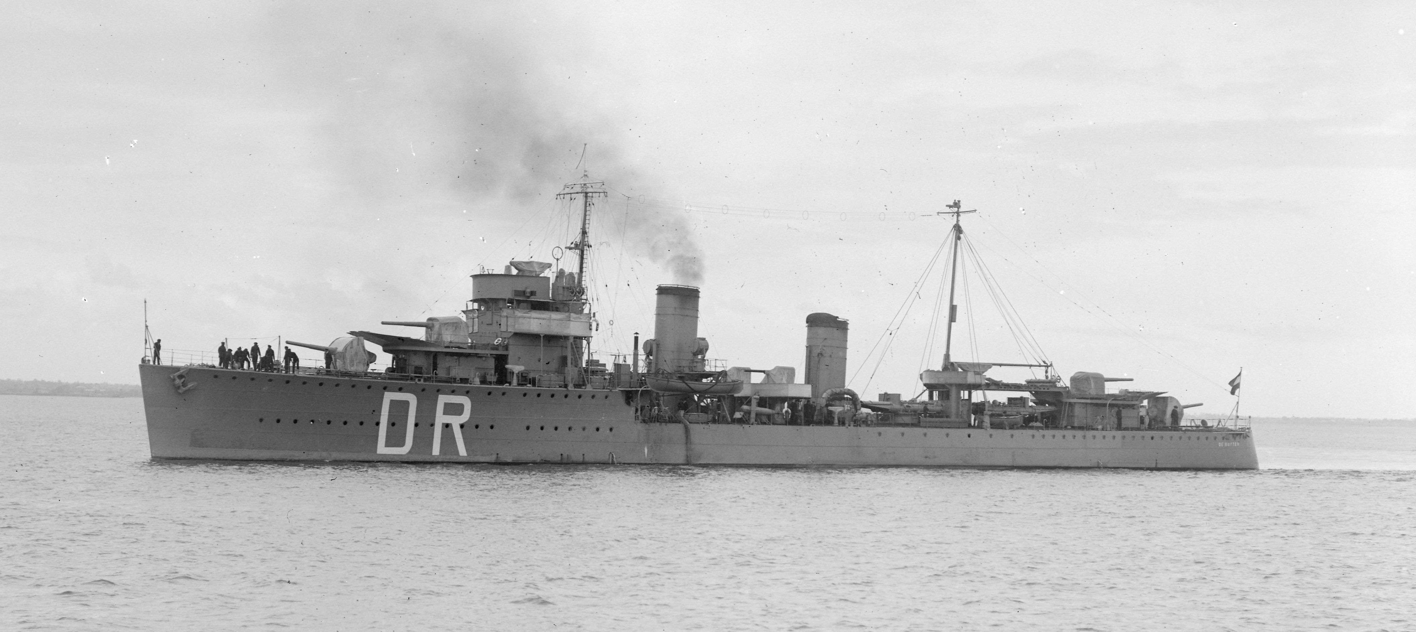 HNLMS De Ruyter (renamed to Van Ghent in 1935)